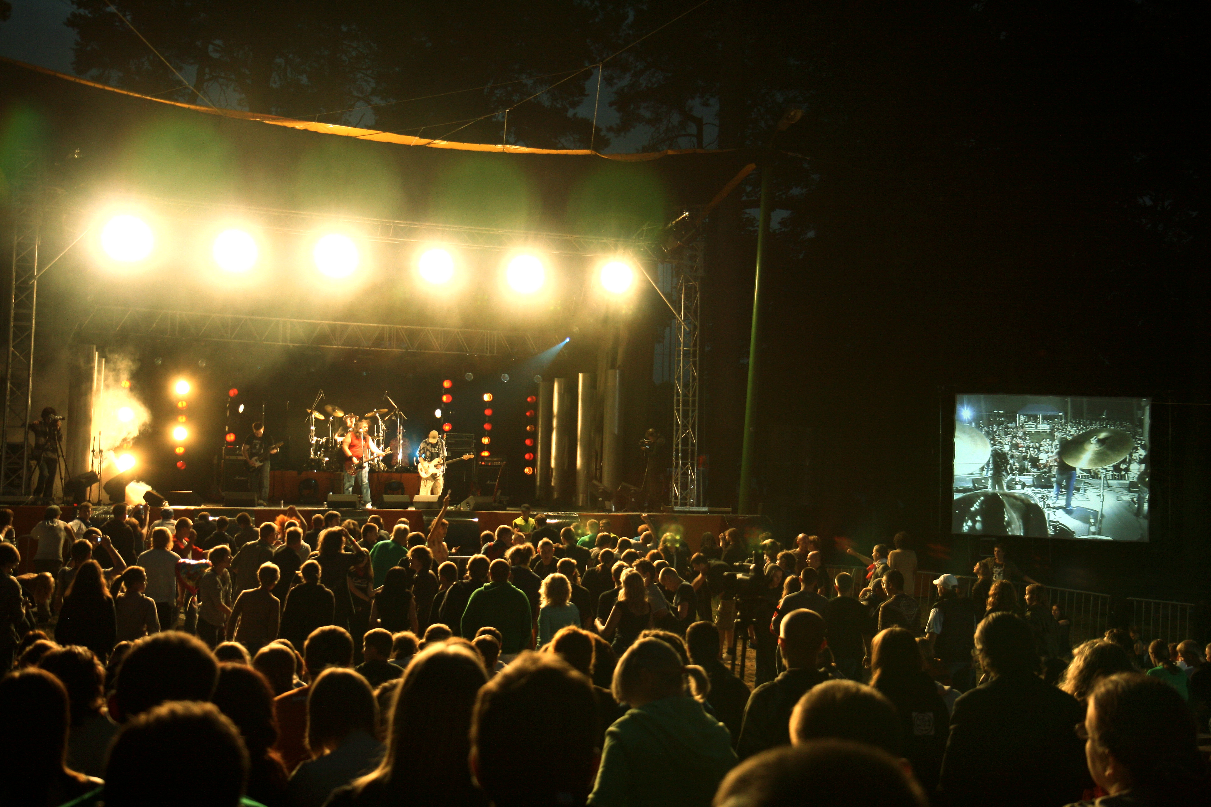 Belarusian band Pomidor/OFF at the fest "Basovišča-2008", Grodek, Poland. 19.07.2008